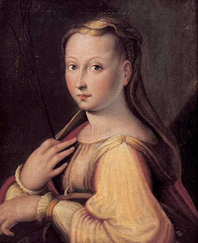 St. Catherine of Alexandria, presumed self-portrait of Barbara Longhi, oil on canvas, 45.7 x 35.6 cm, Pinacoteca Comunale, Ravenna, Italy